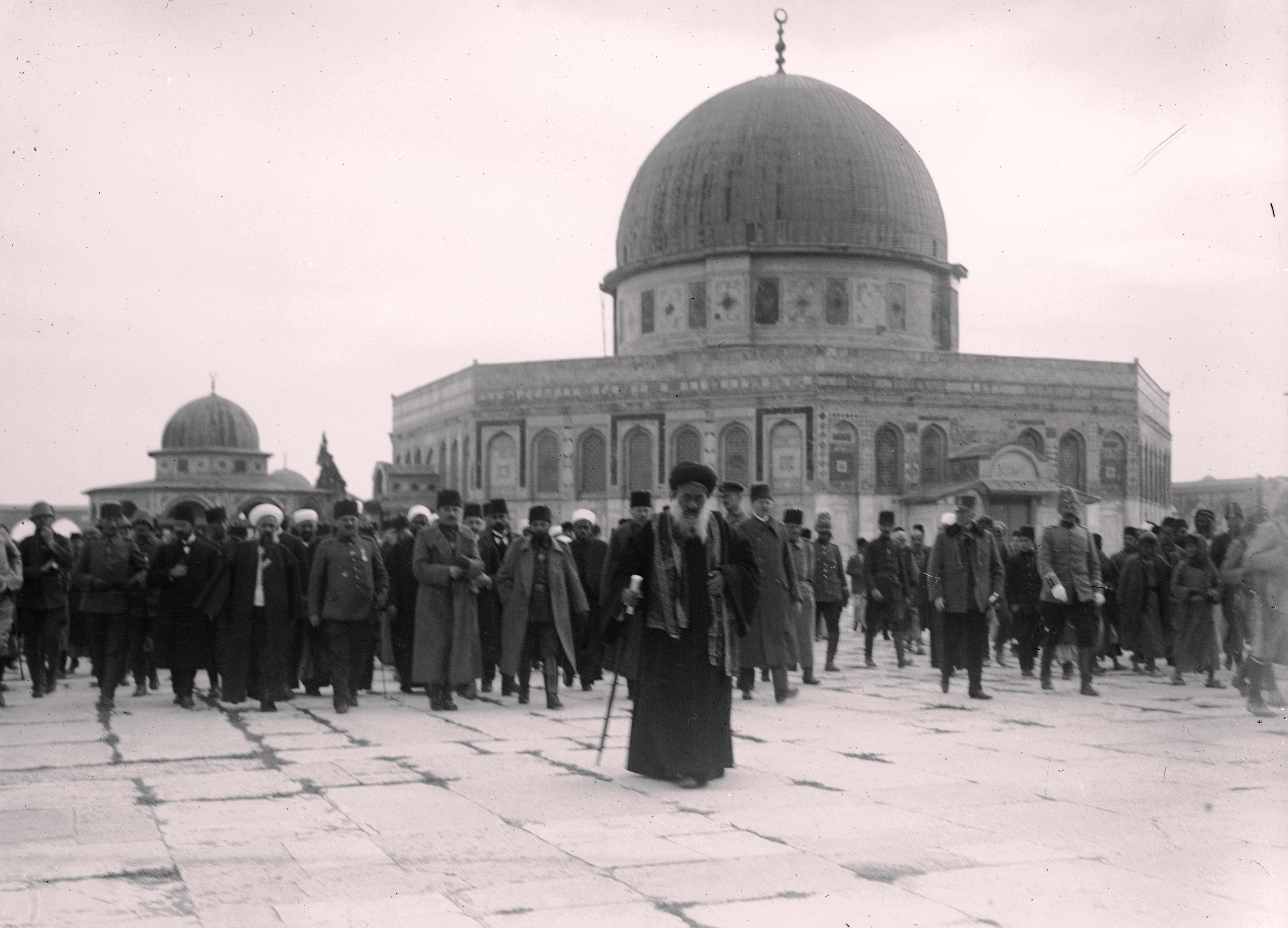 Enver Pasha and Jamal (Cemal) Pasha visiting the Dome of the Rock, Jerusalem